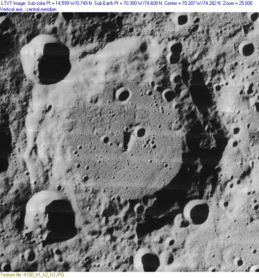 Pascal lunar crater - Lunar Orbiter - IV image LO-IV-190H.